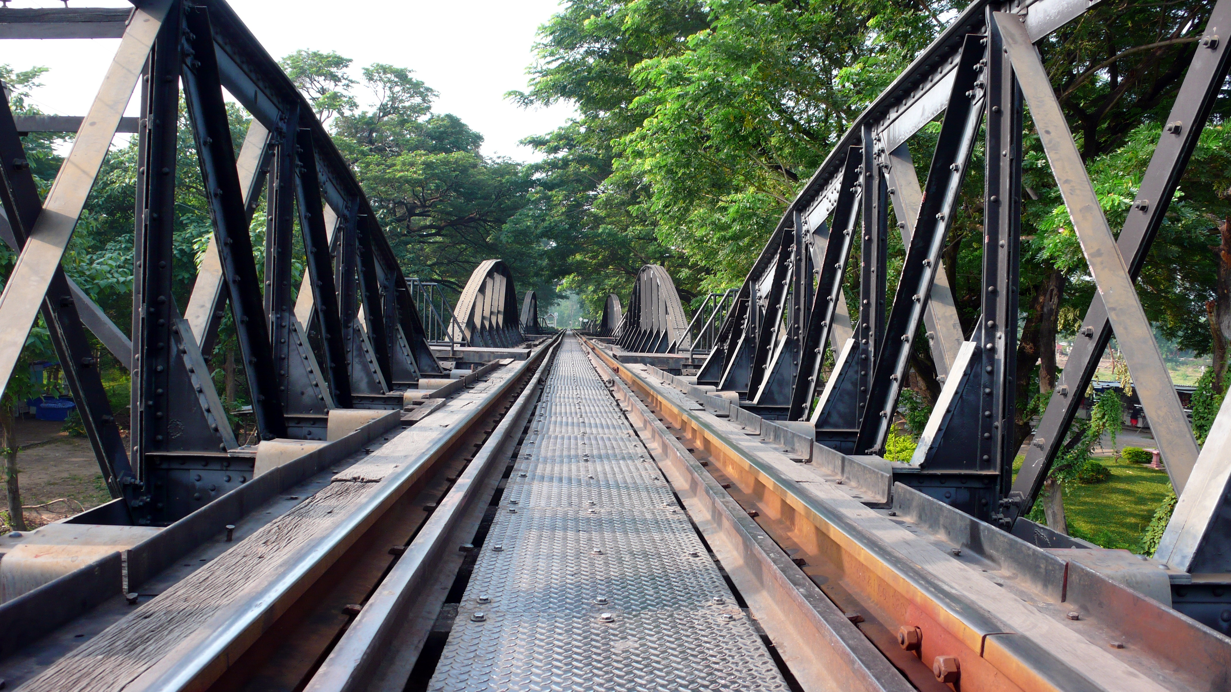 Bridge of Death Railway over the Kwai river, Kanchanaburi, Thailand.